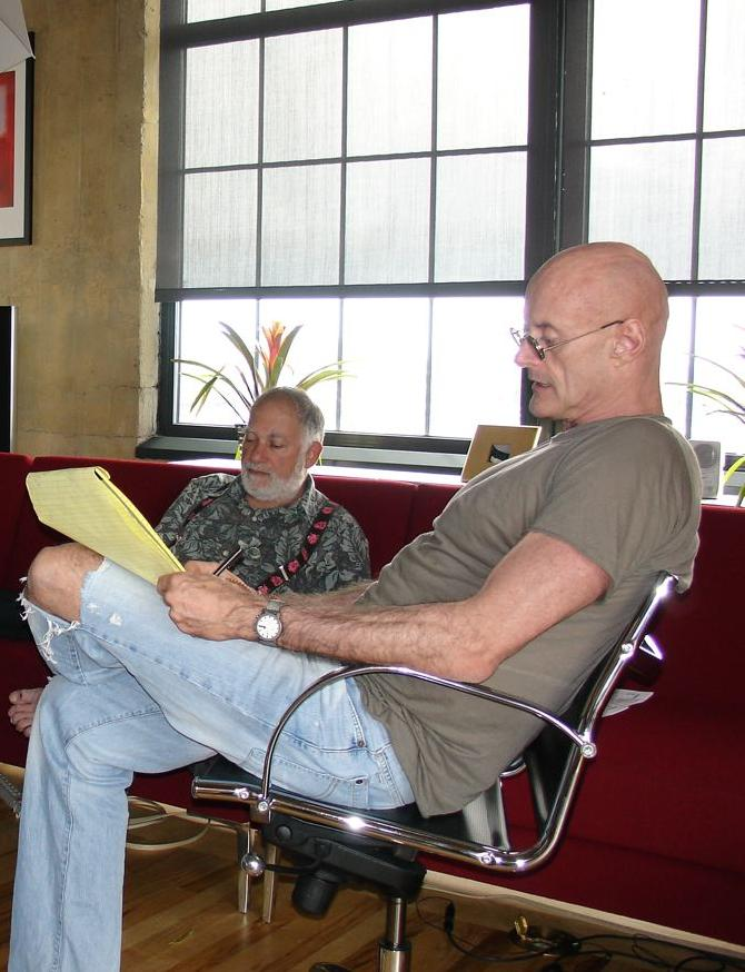 Ken Wilber (cropped version)